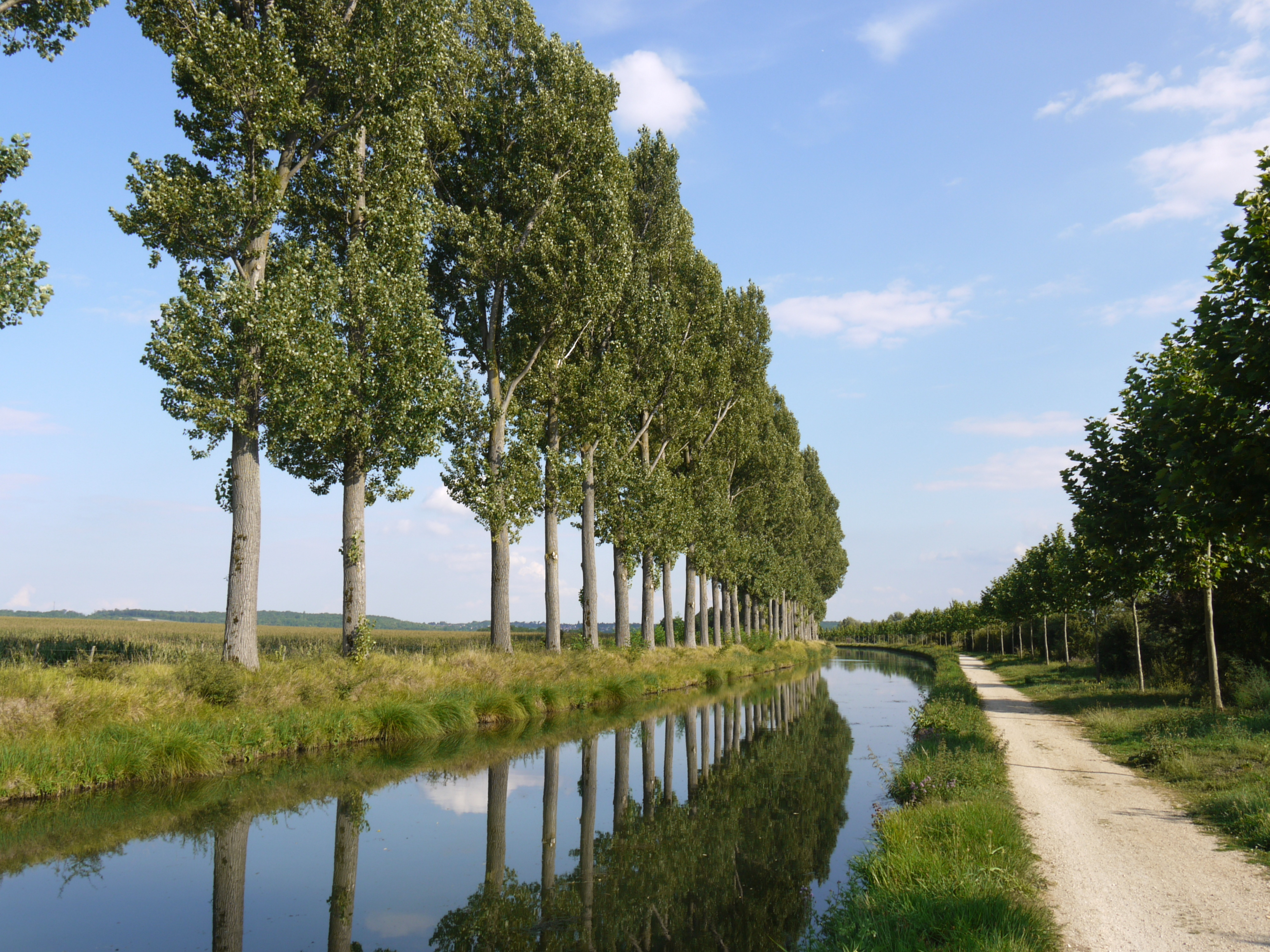 Canal de l'Ourcq near the Vignely lock, Ile de France, France